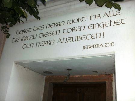 Hear the word of the LORD, all ye, that enter in at these gates to worship the LORD. From Jeremia 7,2 at Mennonite church Friedelsheim, Rhineland-Palatinate, Germany